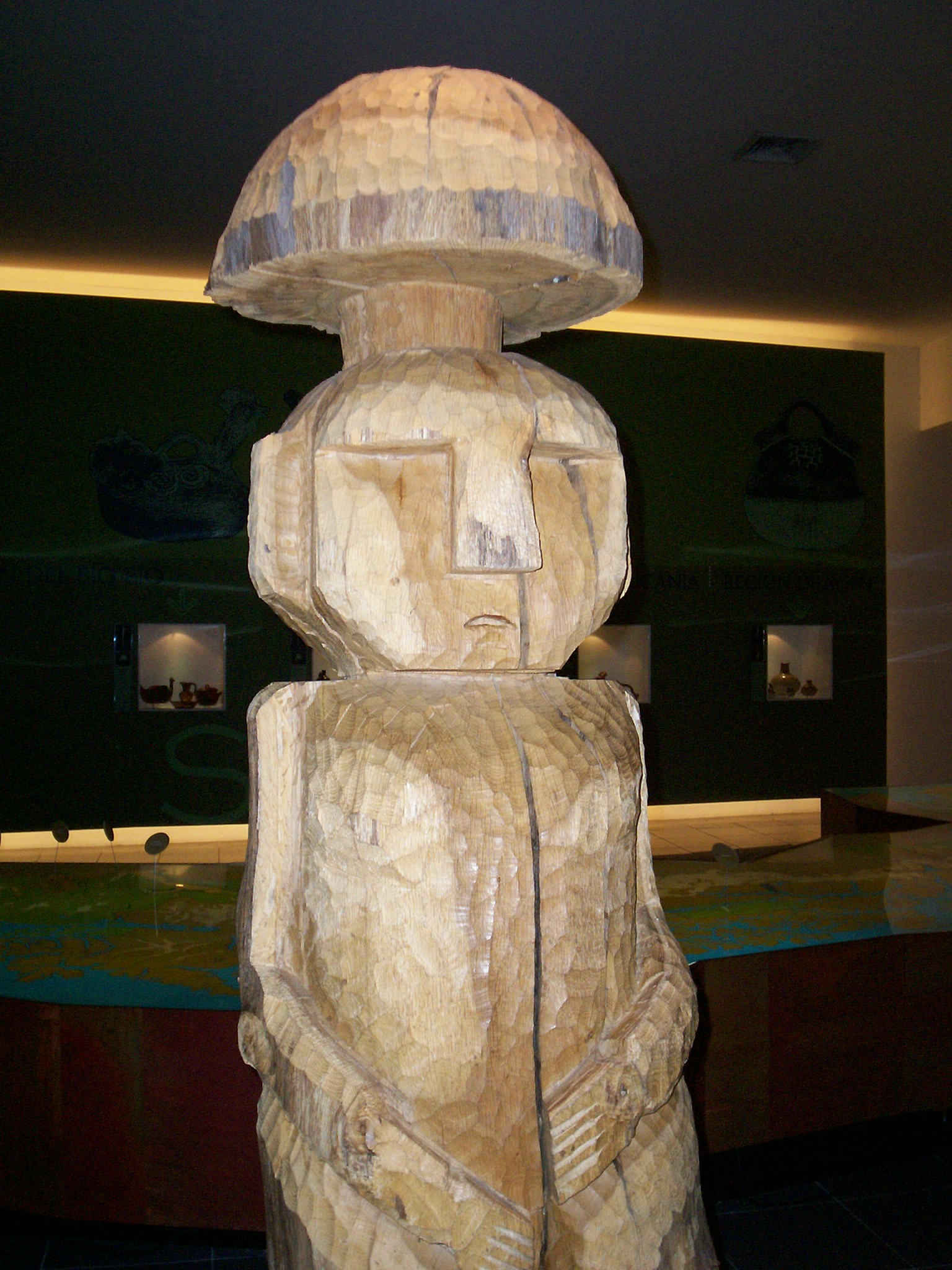 Picture of a Mapuche Chemamul wood statue.